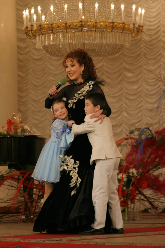 Romansiada